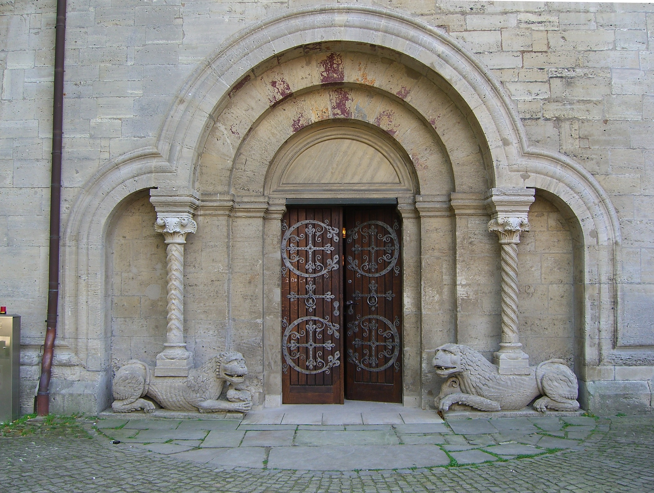 Lion's portal at the monastery church (Kaiserdom) in Königslutter.